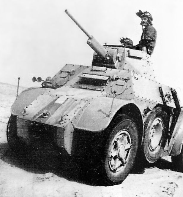 Questa immagine è stata creata in Italia ed è ora di pubblico dominio poiché il suo copyright è scaduto. Secondo la Legge 22 aprile 1941 n. 633, innovata dalla legge 22 maggio 2004, n. 128 articolo 87 e articolo 92, le foto generiche e prive di carattere artistico, divengono di pubblico dominio a partire dall'inizio dell'anno solare seguente al compimento del ventesimo anno dalla data di pubblicazione. Le fotografie considerate opere d'arte diventano di pubblico domino dopo 70 anni. La norma vale in tutto il mondo.